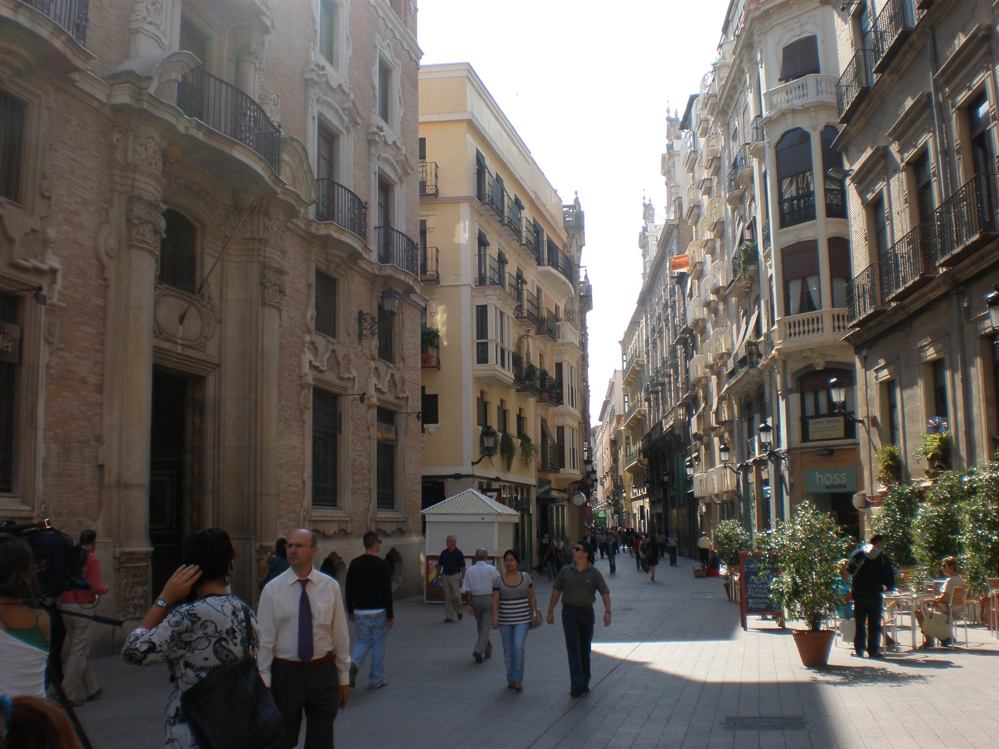 Traperia street seen from Santo Domingo square, Murcia (Spain)